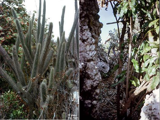 Scenery and flora of Little Swan Island